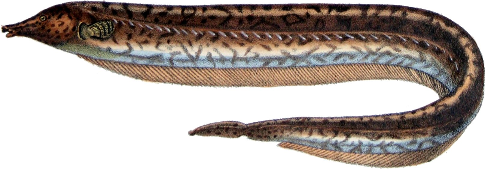 Rhamphichthys marmoratus Cast. = Rhamphichthys marmoratus Castelnau, 1855